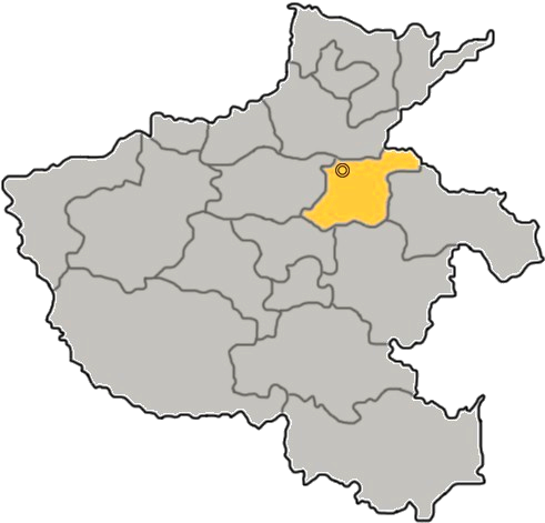 The prefecture-level city of Kaifeng is highlighted on this map of Henan province, People's Republic of China.